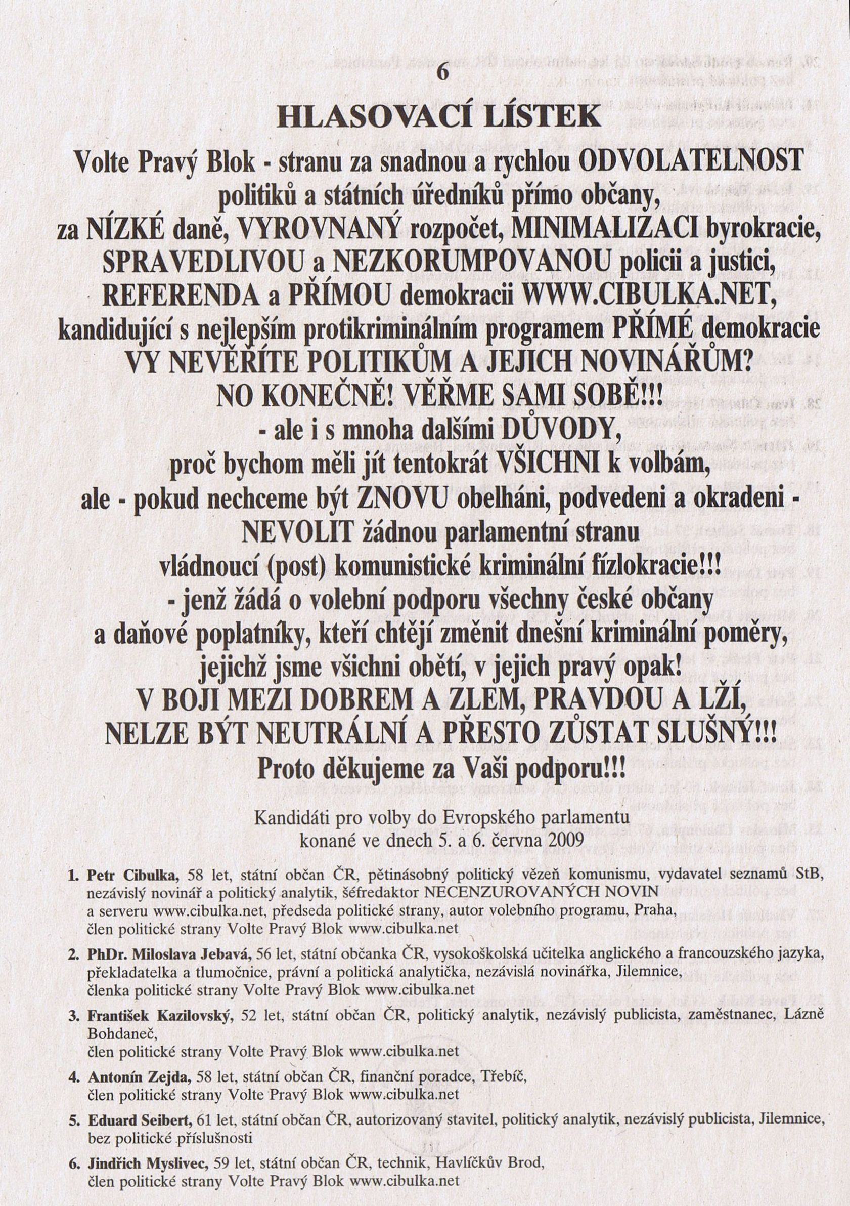 The front side of the voting paper of the political party of Petr Cibulka, European Parliament election, 2009, Czech Republic. This party has got 1,00% of valid voices in the Czech Republic.